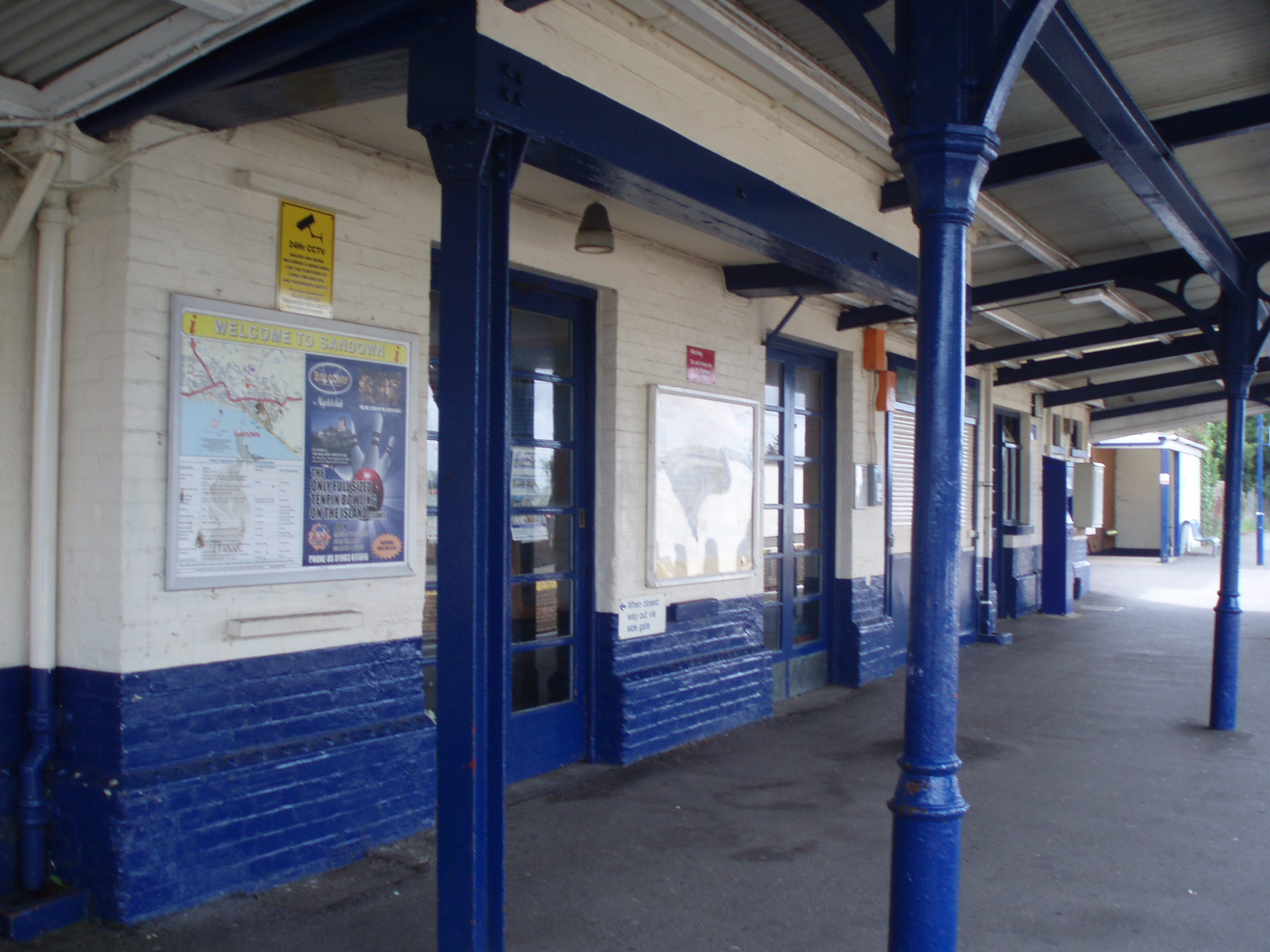 Photo taken on 22nd September 2007